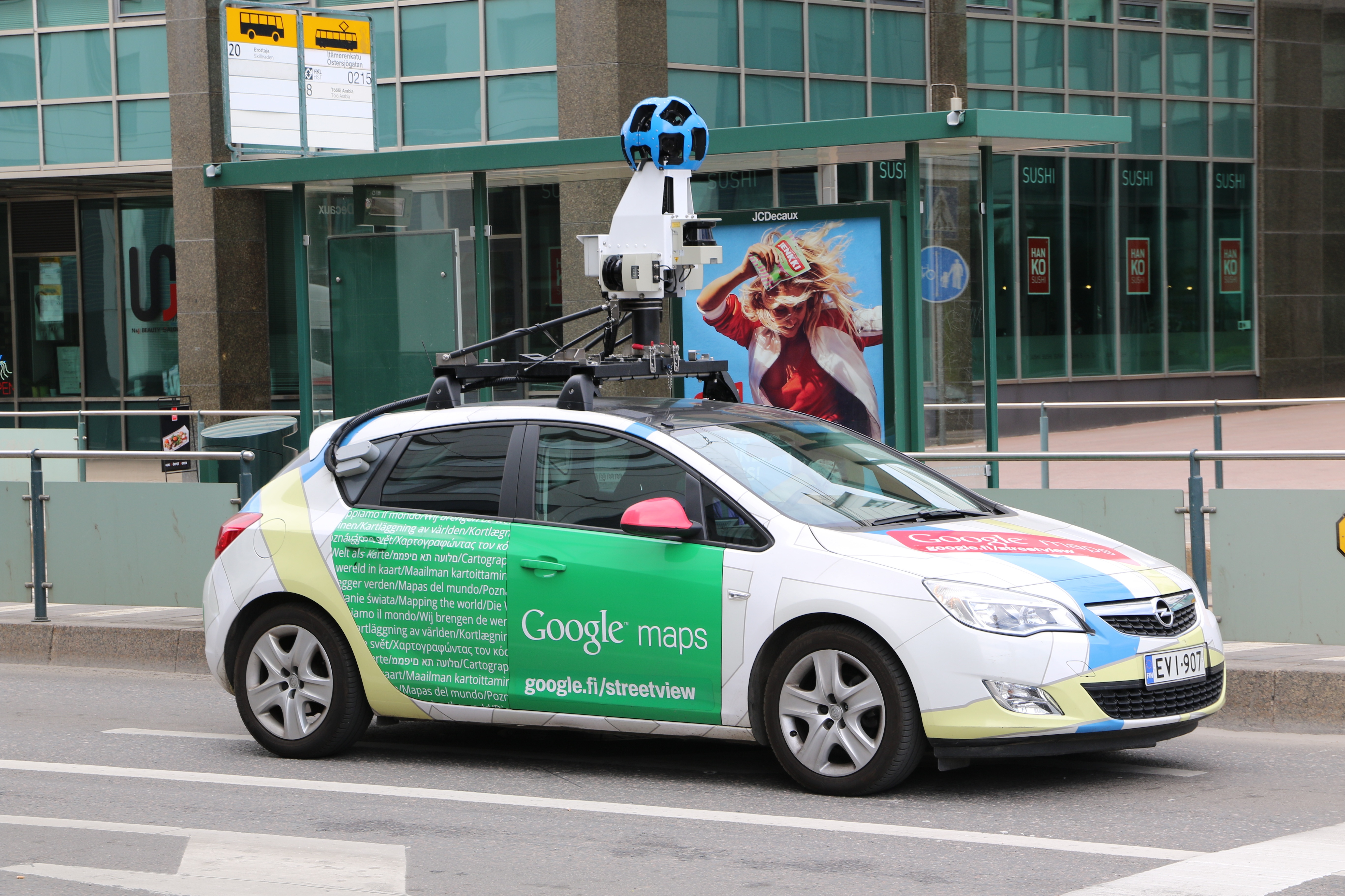 Opel Corsa, Finland